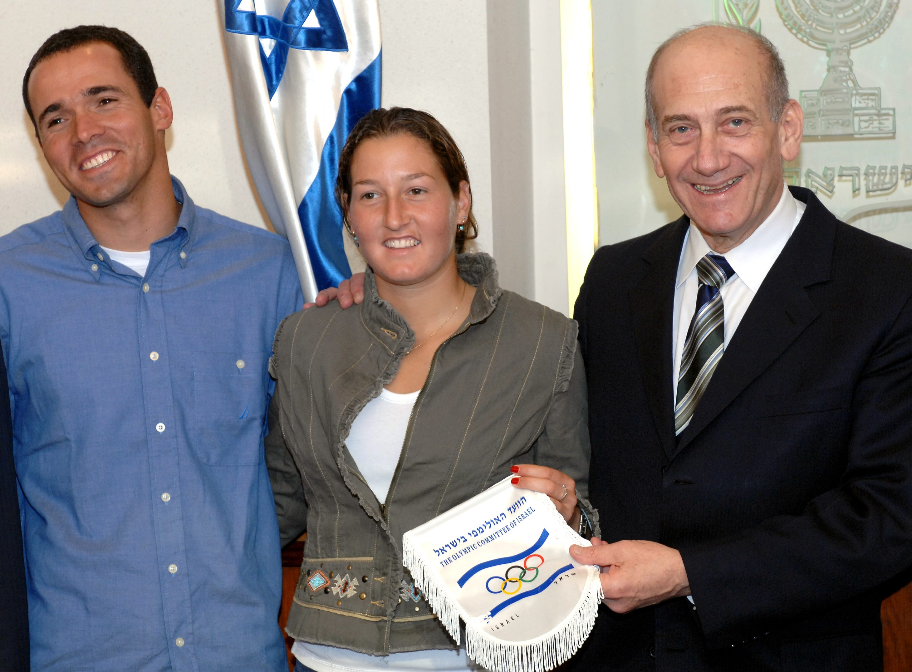 Prime Minister Ehud Olmert meets with tennis player Shahar Peer and windsurfer Udi Gal at the Prime Minister's Office in Jerusalem.